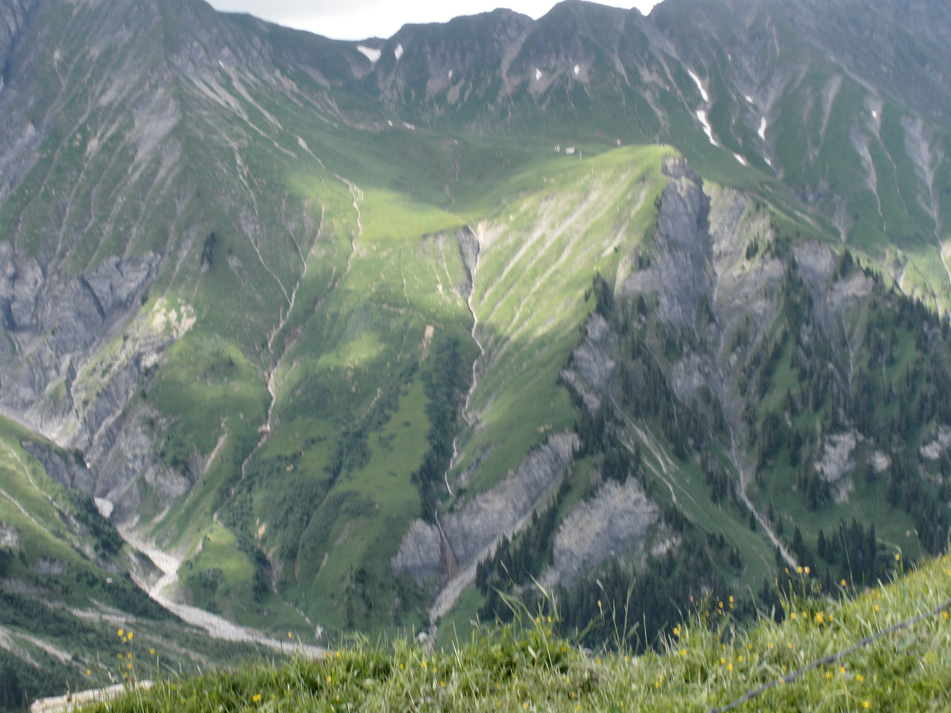 Furggialp near Adelboden